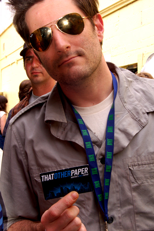 Michael Showalter at the Mess with Texas party on Friday, March 16 2007.